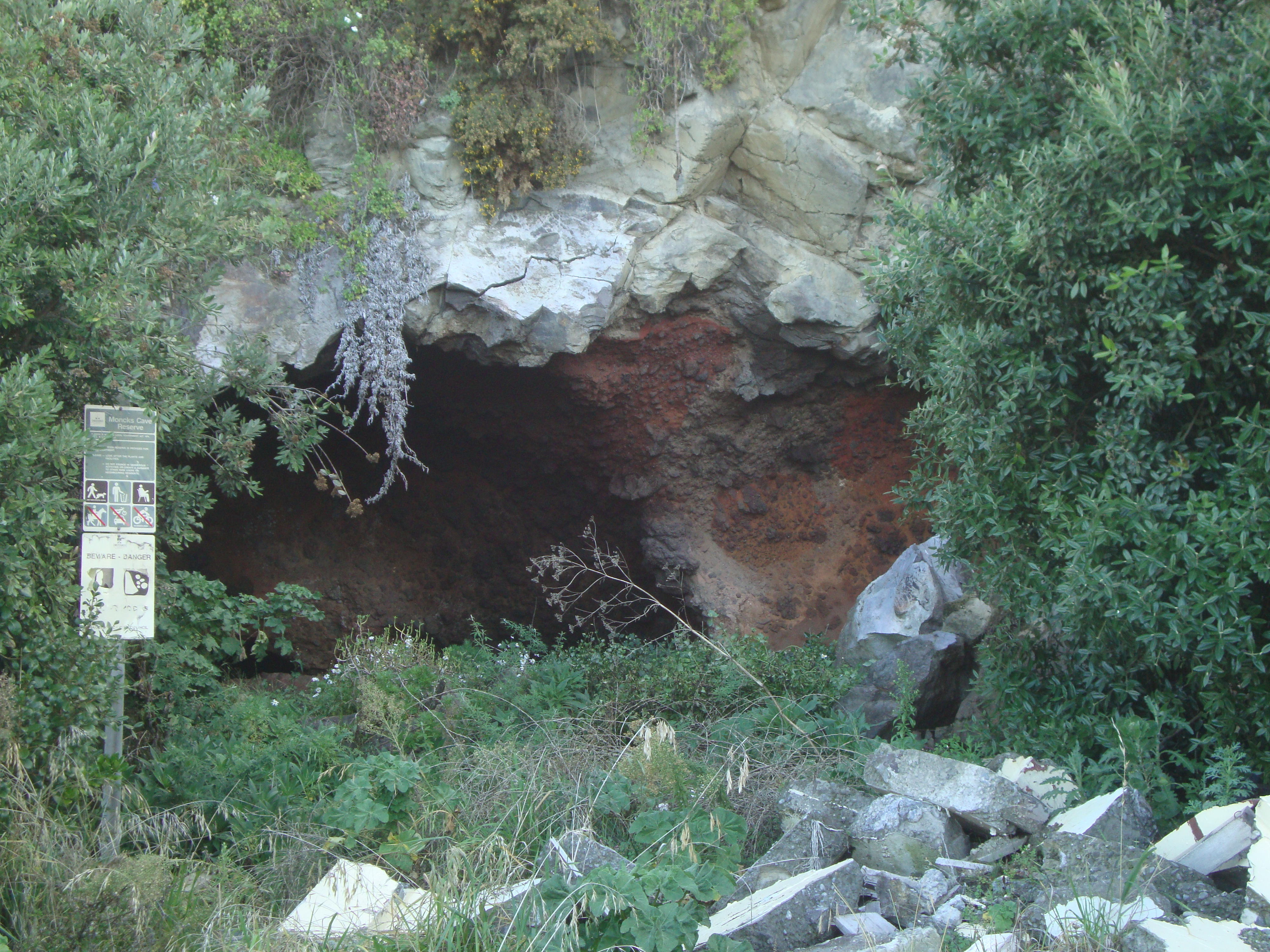 Moncks Cave in July 2012.